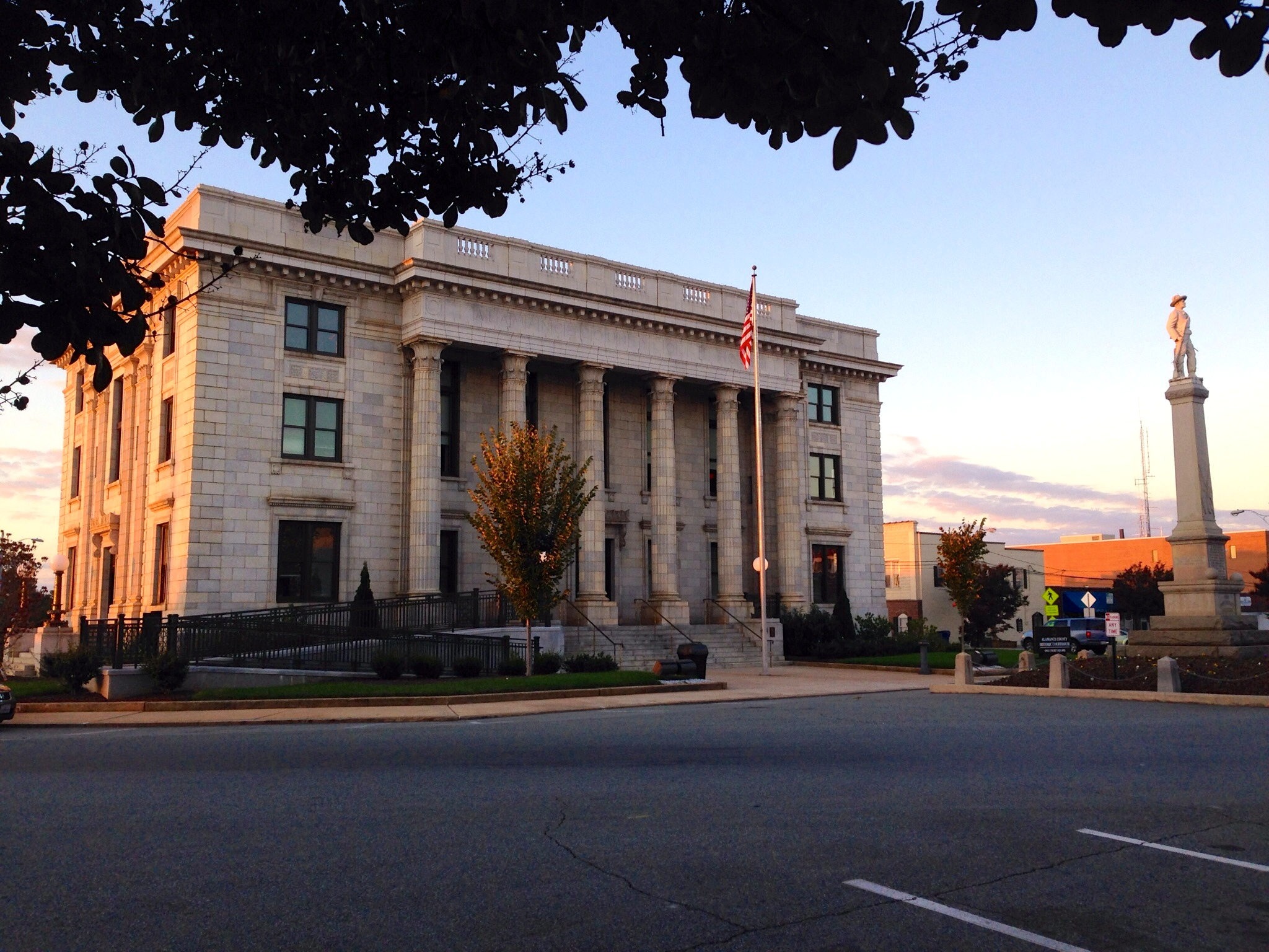 From NE Corner, near Tasty Bakery in Graham, NC